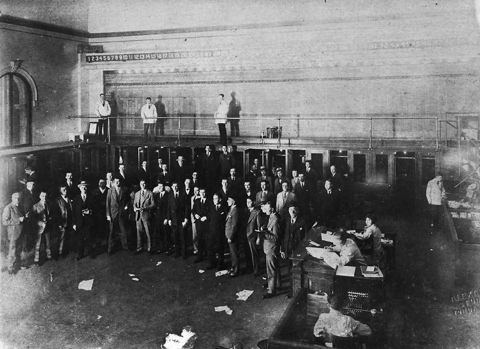 Members on the trading floor of the Toronto Stock Exchange. Toronto, Canada.